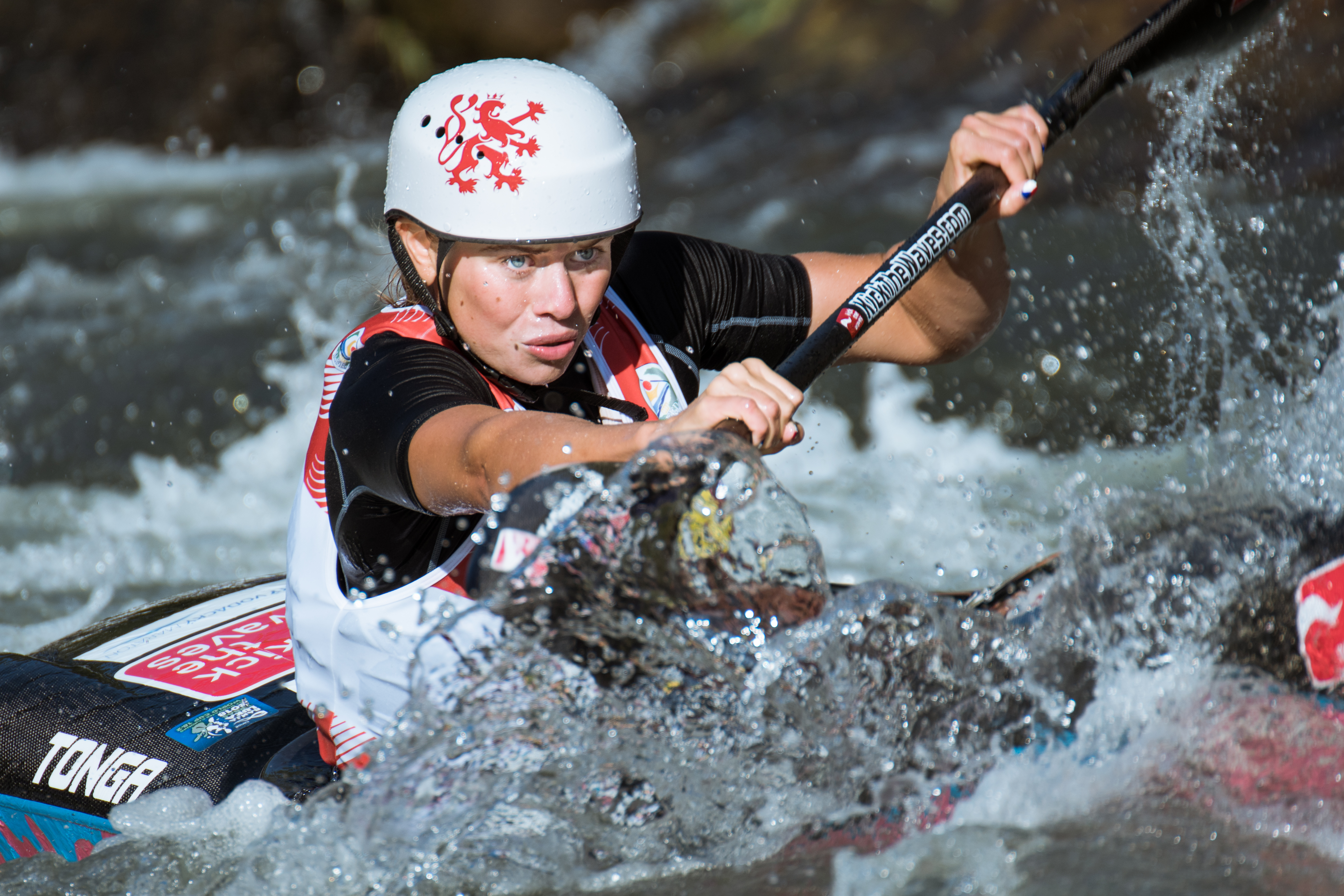 Anežka Paloudova during the 2019 Canoe Wildwater World Championships in La Seu d'Urgell, Spain.